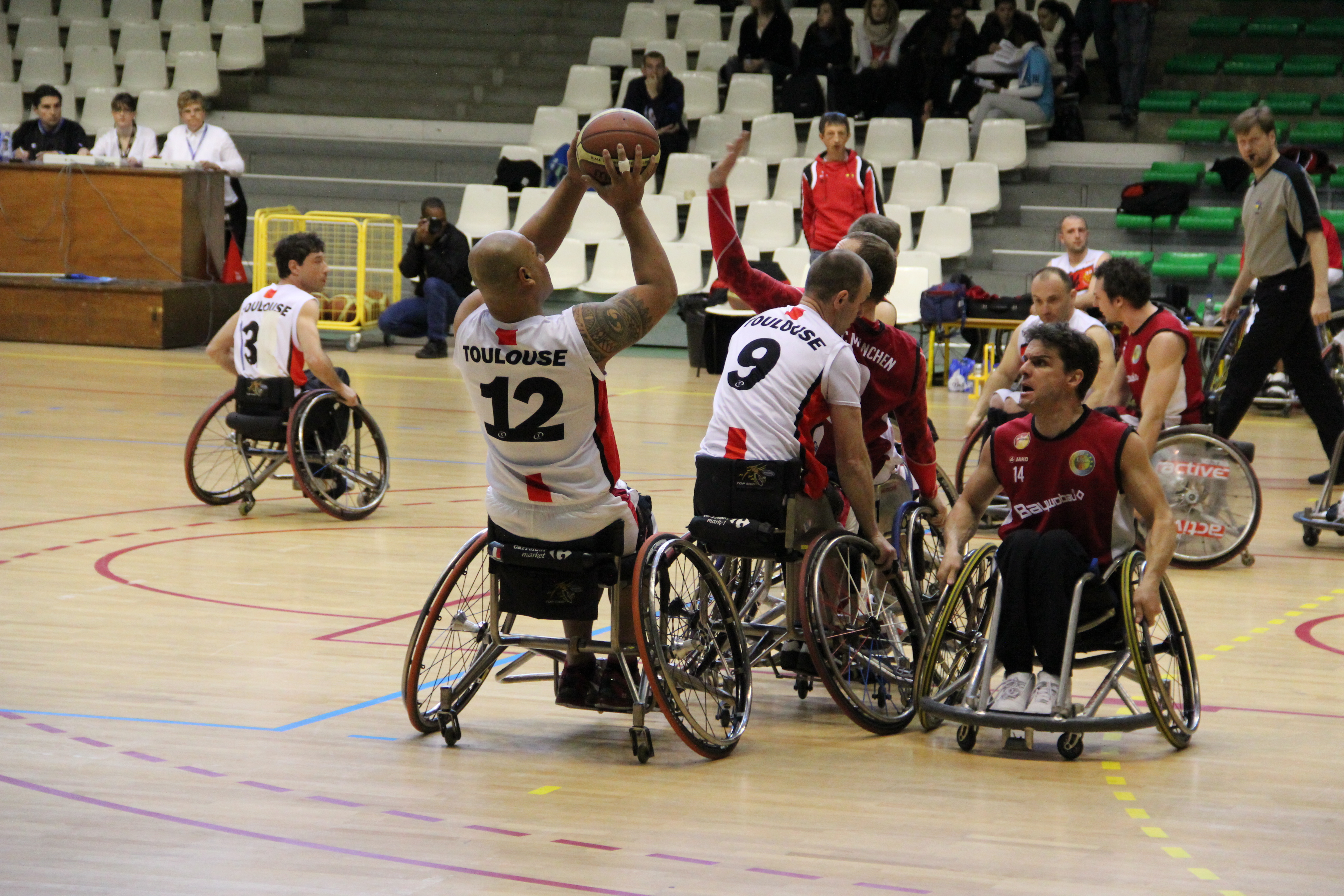 Euroleague — 9 March 2012, Palais des sports André-Brouat, Toulouse. Match between: Toulouse IC — USC Munich